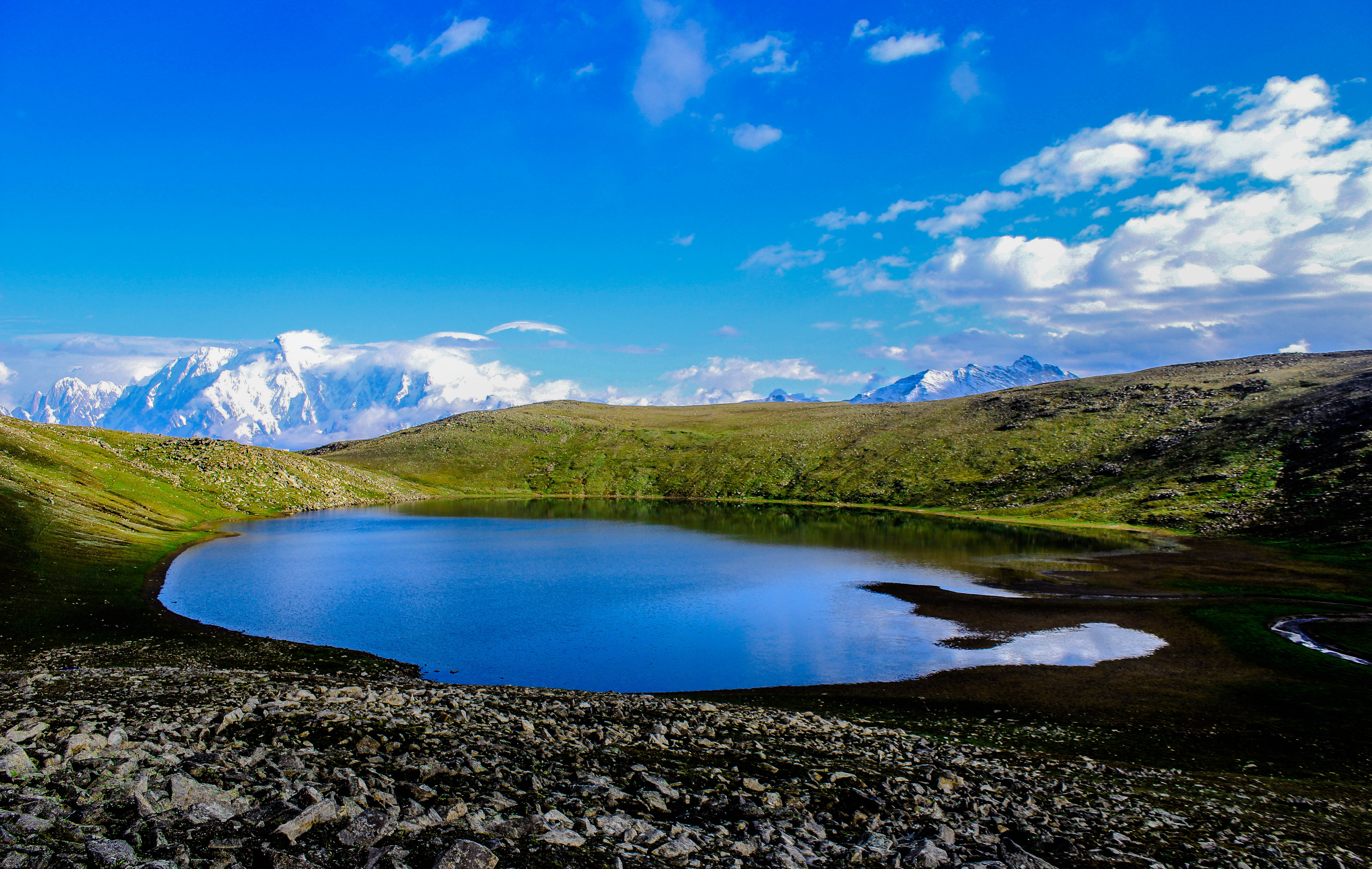 Rush Lake, Hooper Nagar